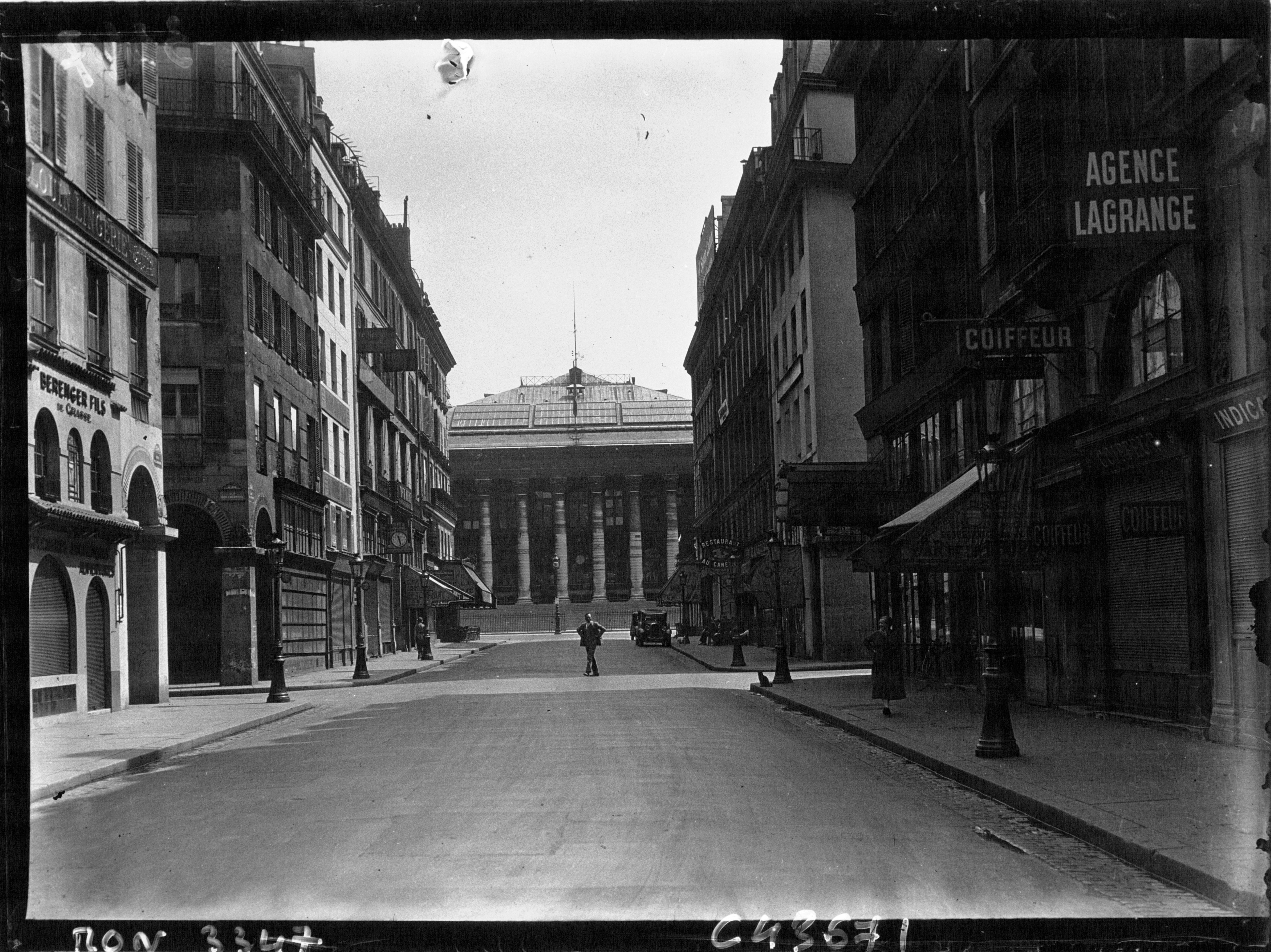 Rue de la Bourse in the 2nd arrondissement of Paris.